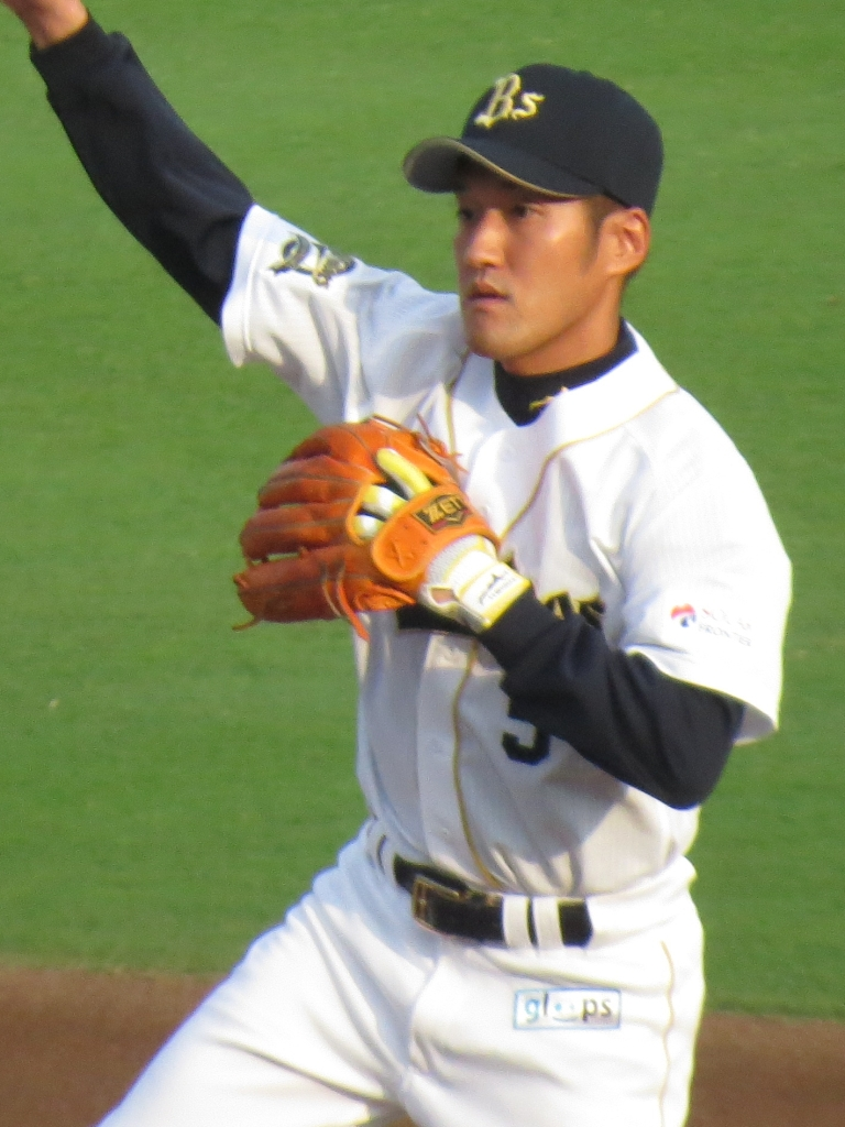 Keiichi Hirano, infielder of the Orix Buffaloes, at Kobe Sports Park Baseball Stadium.